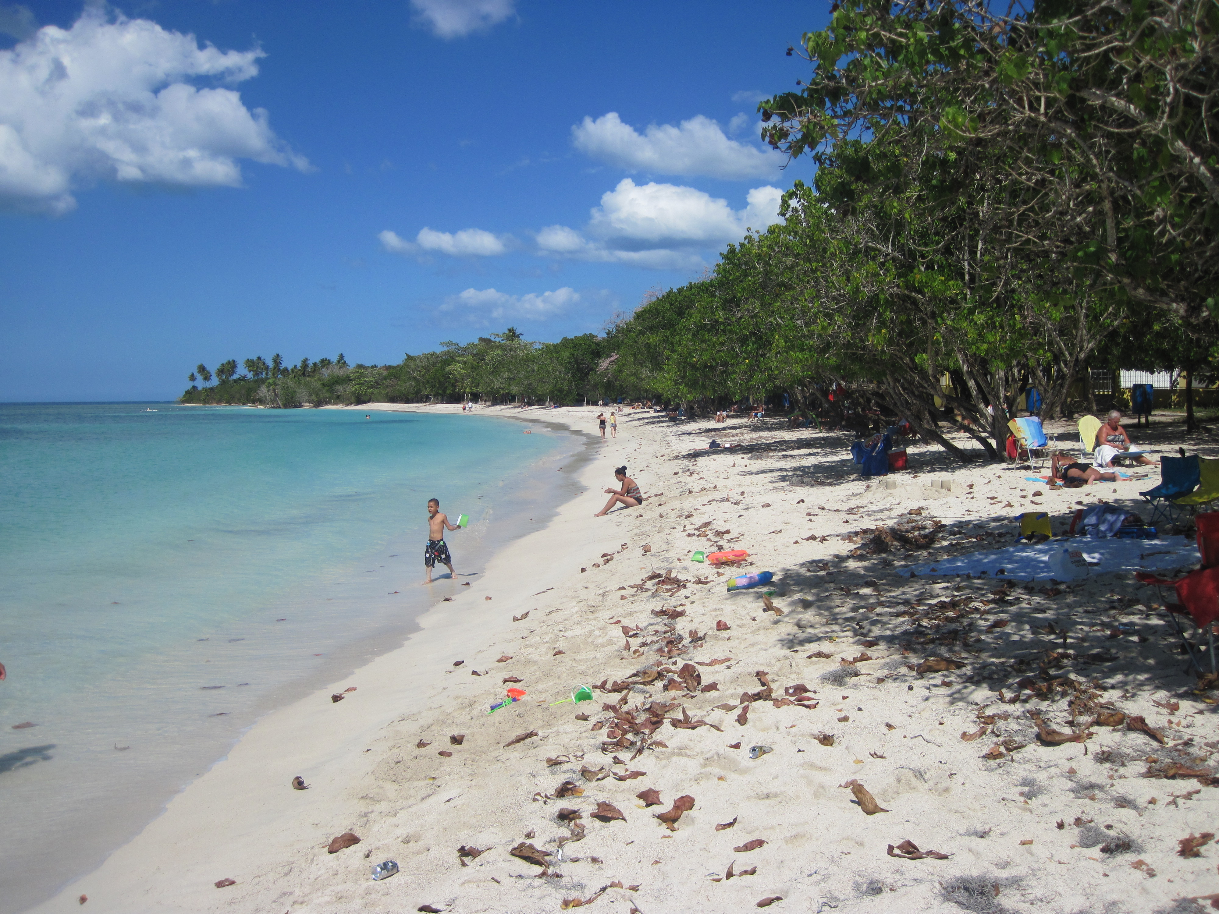 Playa Buye, Cabo Rojo, Puerto Rico.